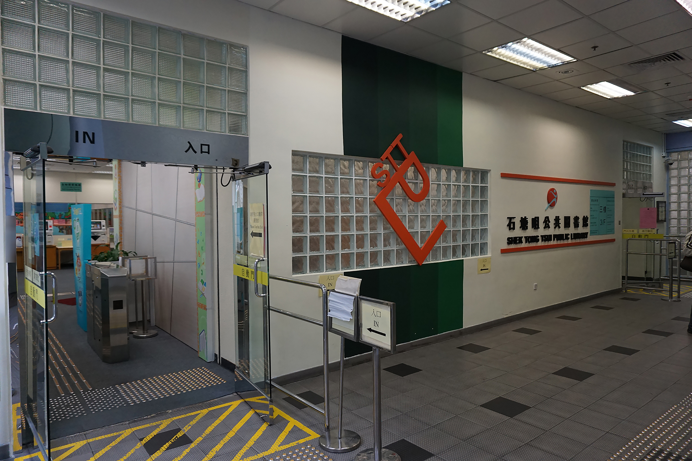 Public library in Shek Tong Tsui, Hong Kong.